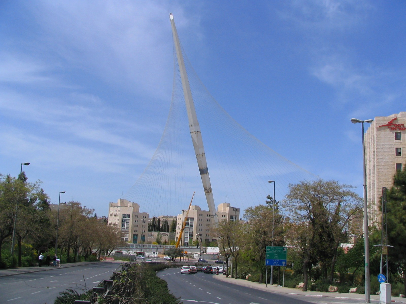 Chords Bridge, Jerusalem, Israel